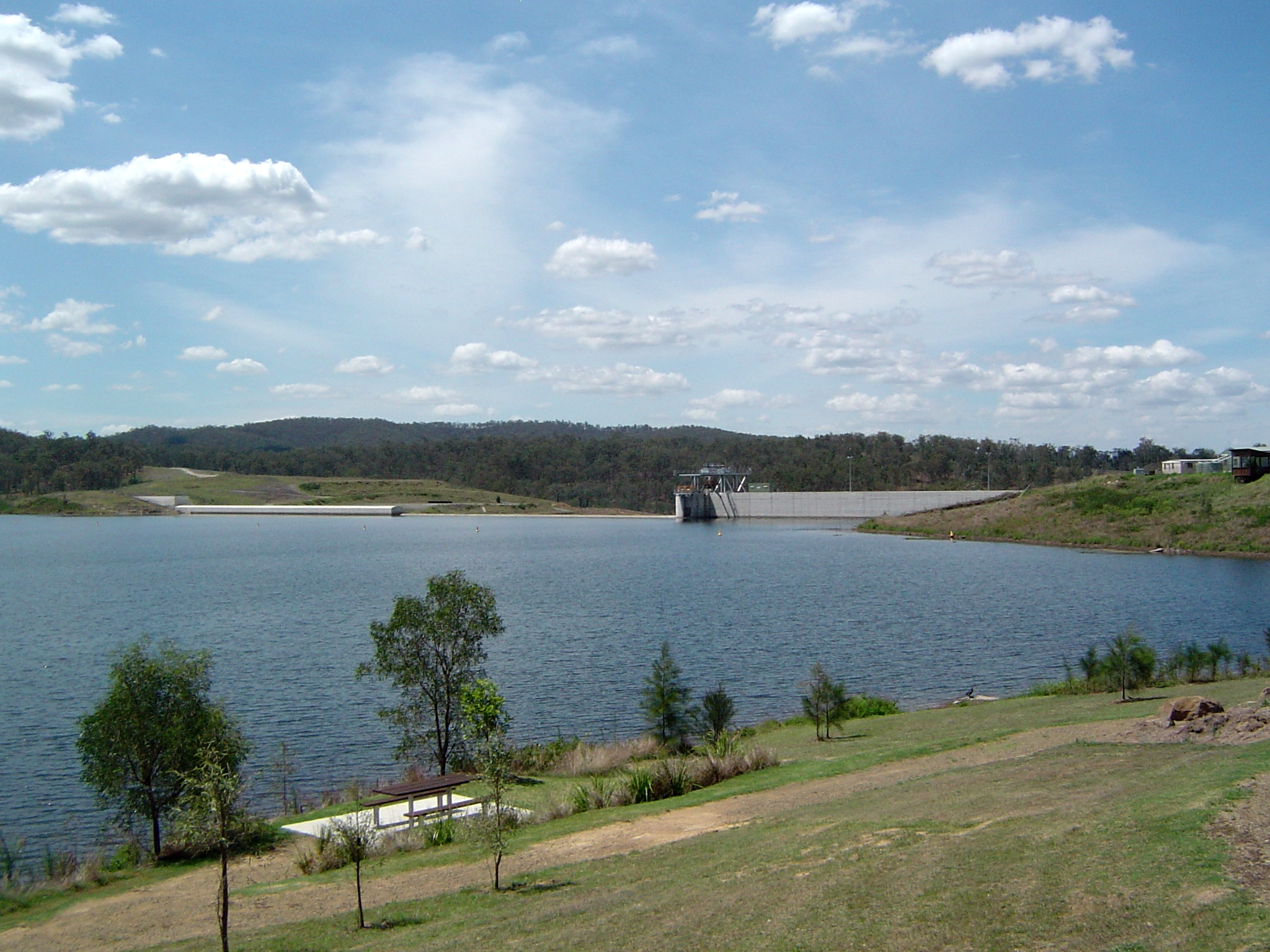 Photo of dam wall at Wyaralong Dam near Beaudesert, Queensland, Australia as seen from picnic area.